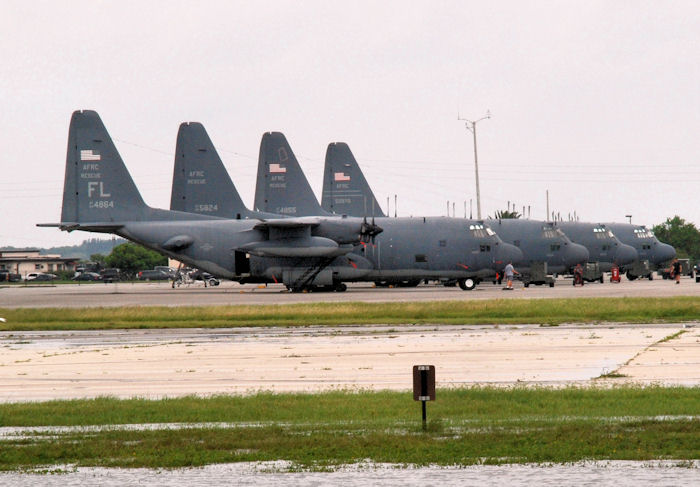 C-130s of the 920th Rescue Wing, Patrick AFB, Florida